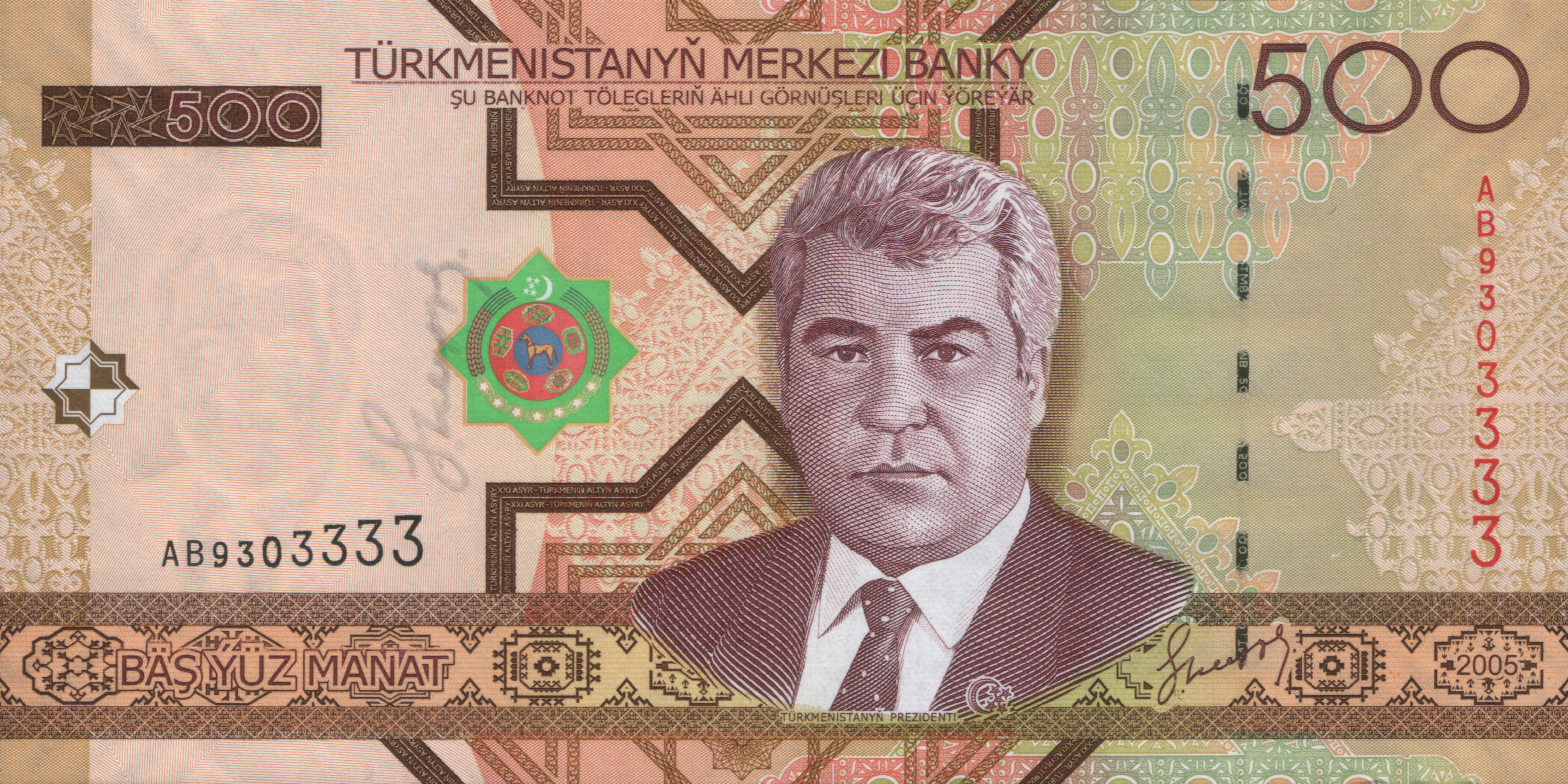 500 manats of Turkmenistan (2005)